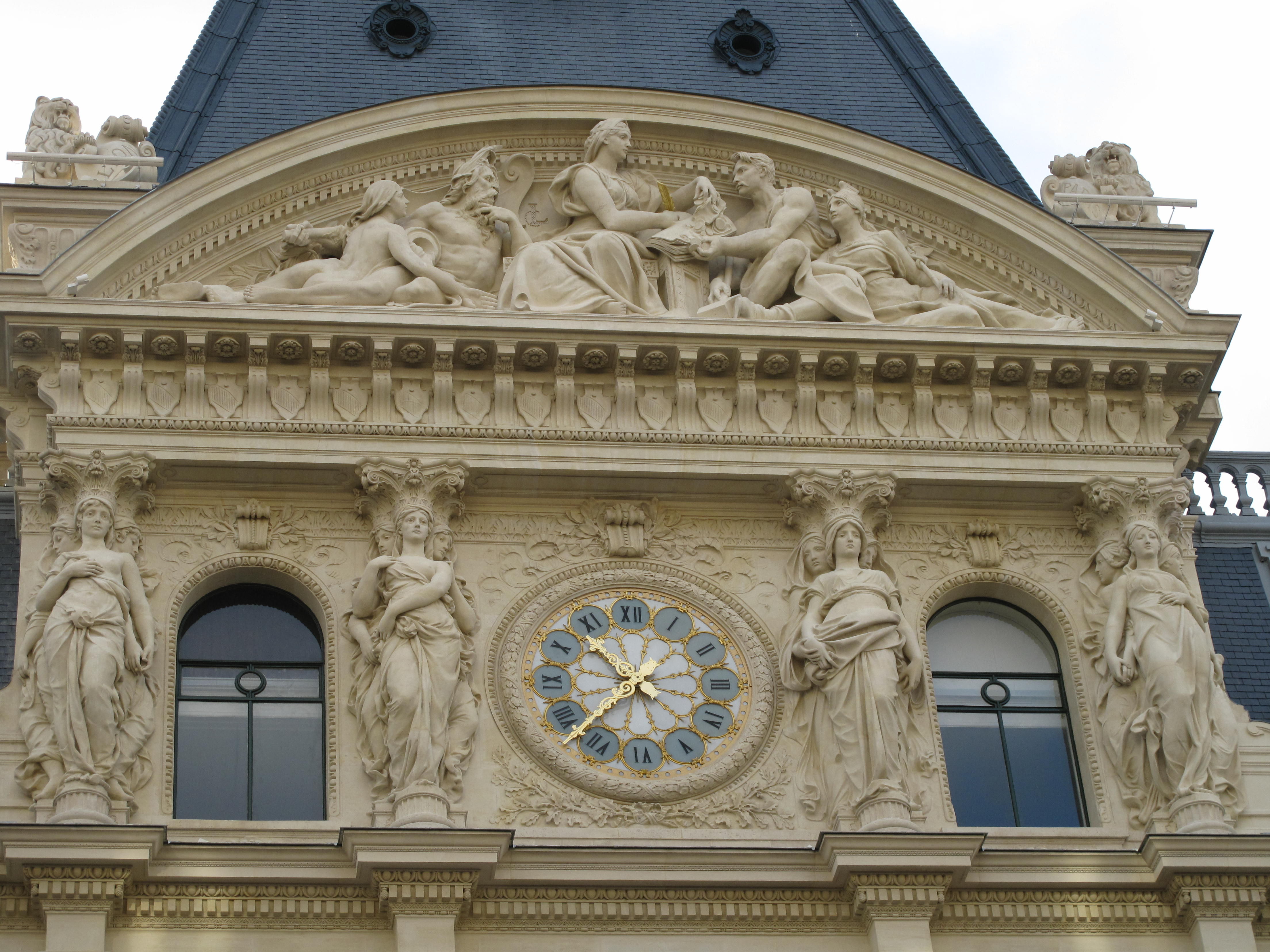 Pediment of the central pavilion of the Credit Lyonnais headquarters.